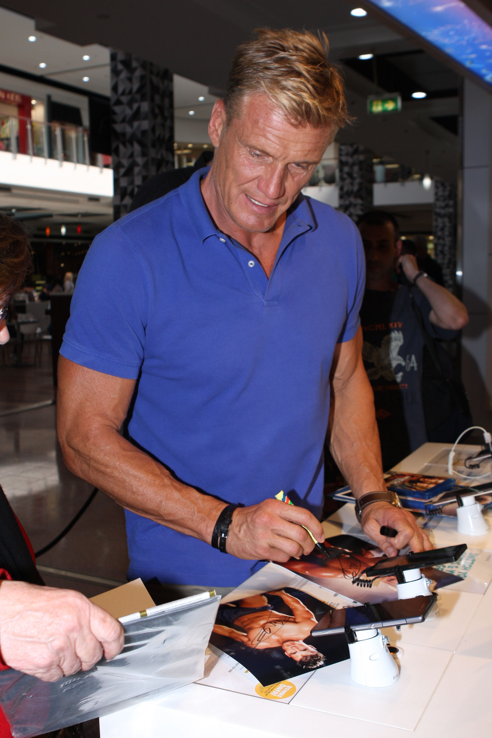 Dolph Lundren Dolph Lundren in Sydney, Australia, September 9th, 2014